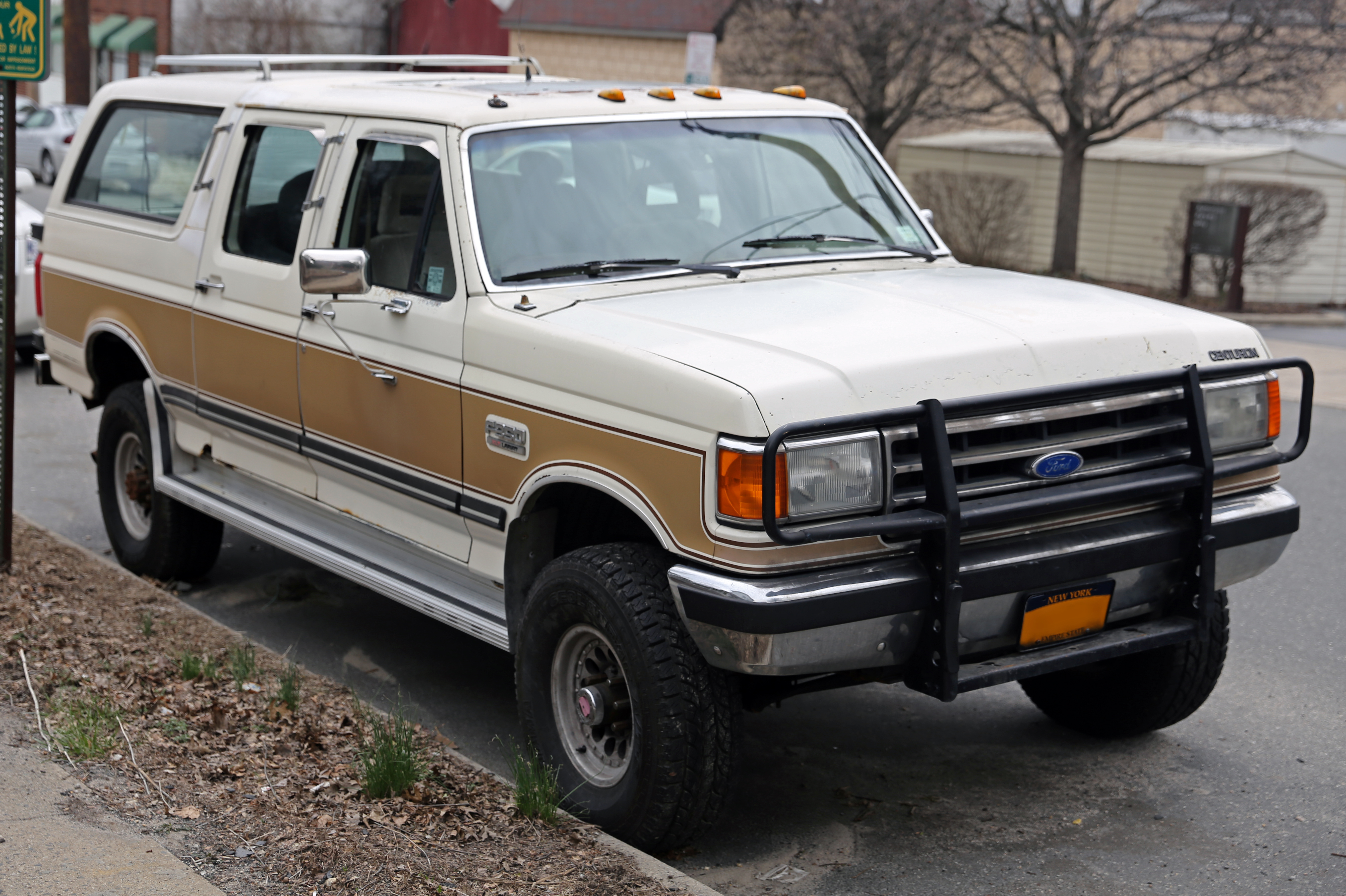 A 1989 Centurion Classic 350, based on a Ford F-350 Lariat XLT Crew Cab. On a slightly shorter (140 inch) wheelbase than the pickup and with a short rear overhang dictated by the usage of Bronco bits, this bitza was available through Ford dealerships and offered a toehold against the Chevrolet/GMC Suburban. Expensive while new, it is quite rare today - especially so in the rust prone Northeastern US. This one has the 460 ci (7.5 litre) gasoline V8 engine.